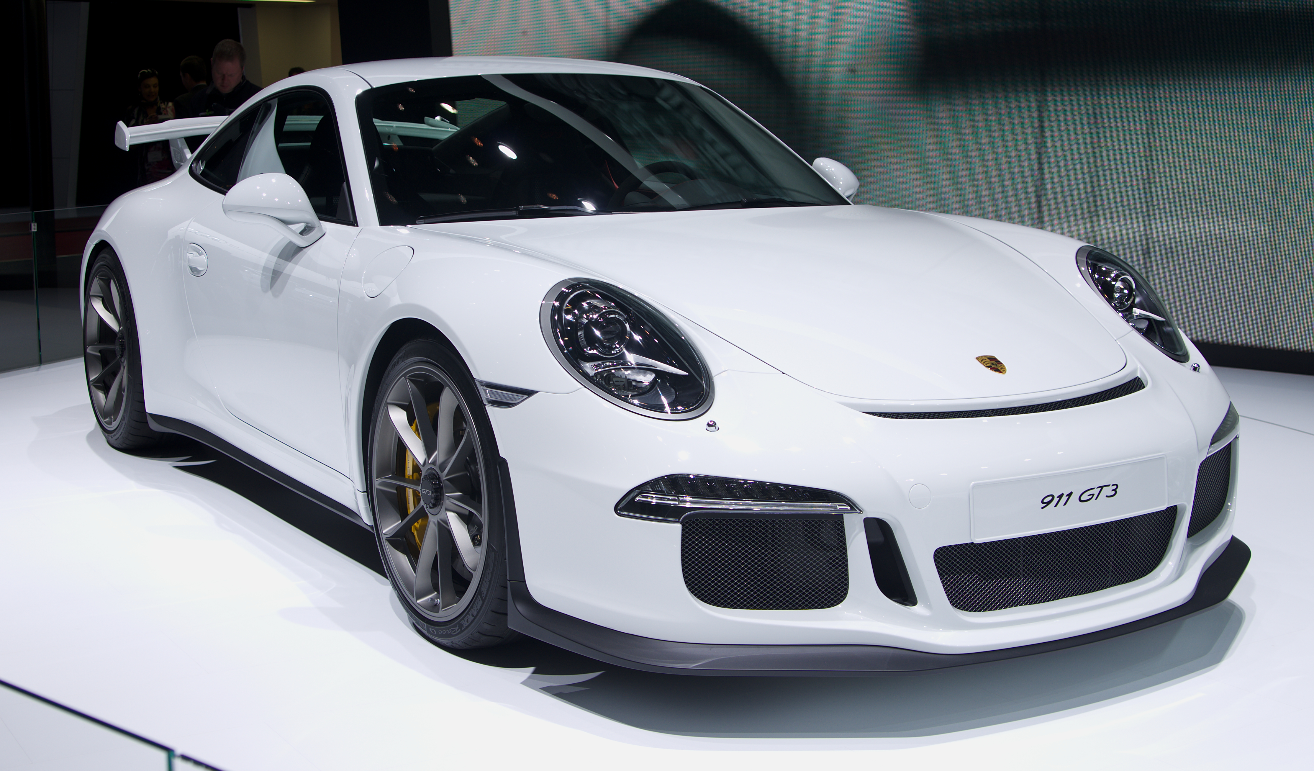 Geneva MotorShow 2013 - Porsche 911 GT3